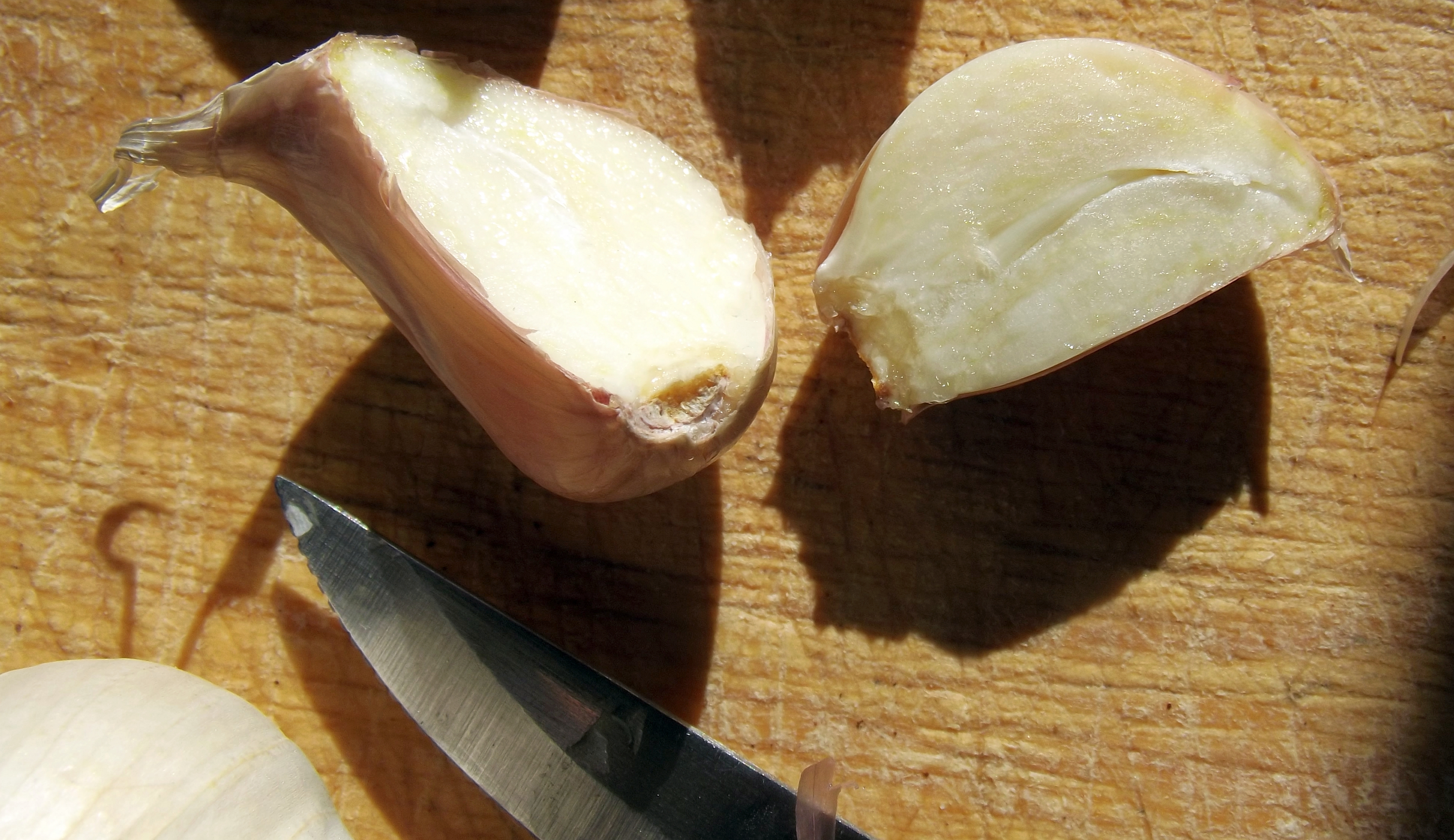 Aglio di Voghiera: sliced clove